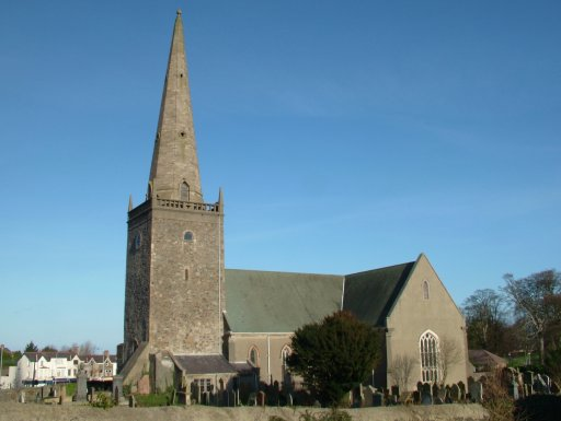 Bangor Abbey. Taken by myself on the 26th Jan 2006